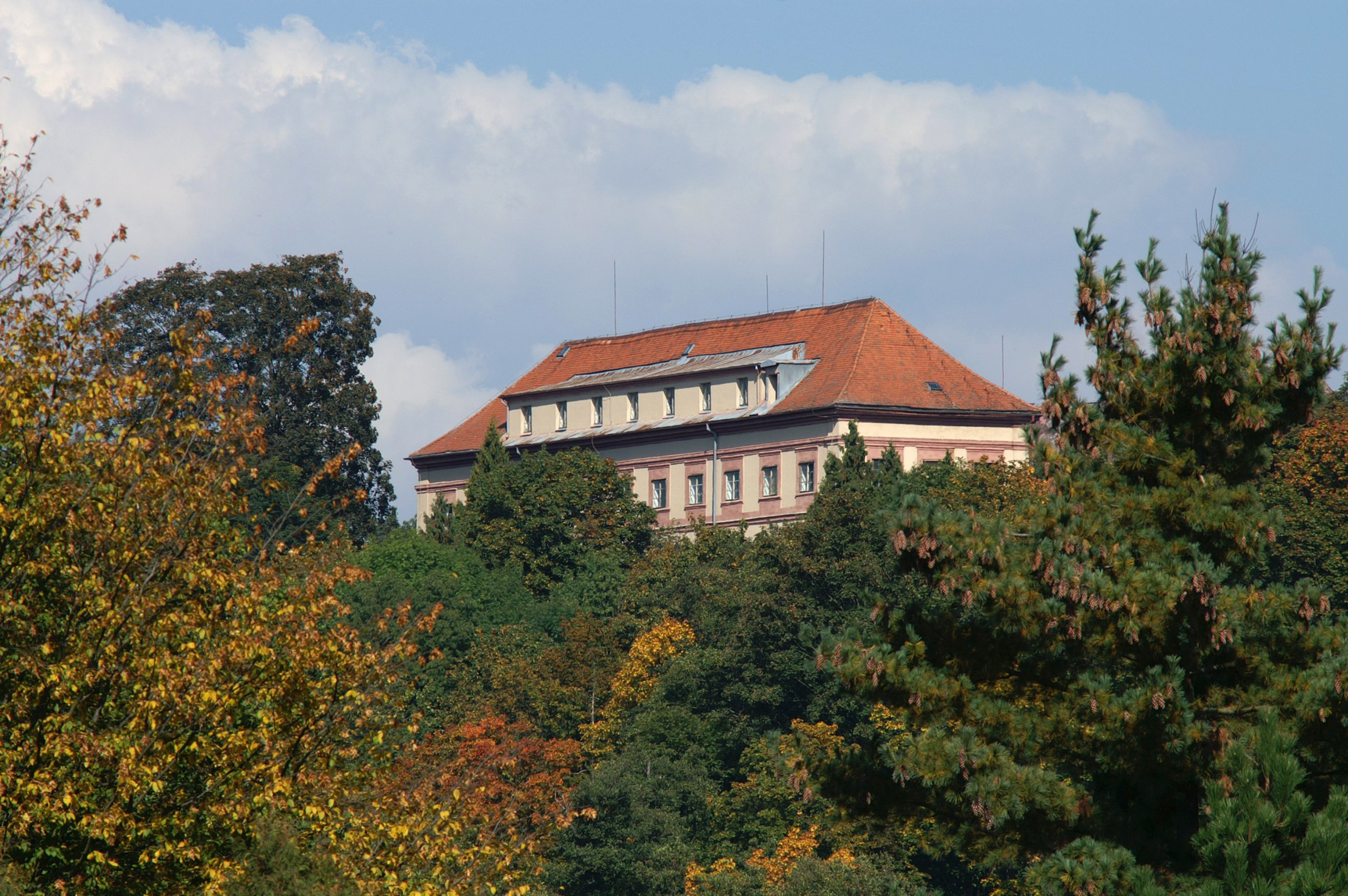 Castle in Planá, Tachov District, Czech Republic